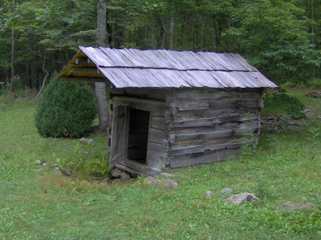 Springhouse at the Walker Place at Little Greenbrier, in the Great Smoky Mountains of Tennessee, USA. Springhouses were placed over cold springs and used for refrigeration.